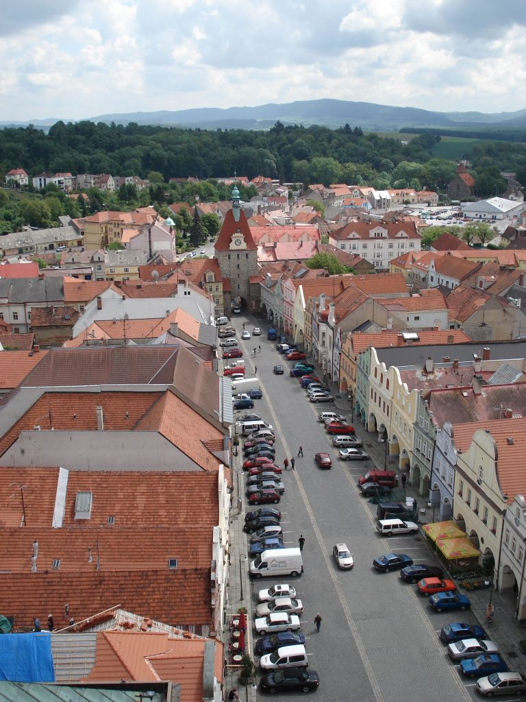 View of Domažlice old town center (Plzeňský kraj, Czech Republic)